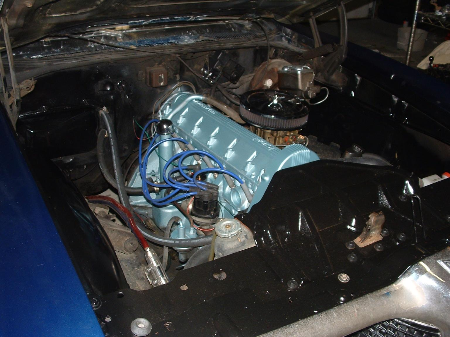 This is a picture I took of my engine in my car to be used under the Custom S Sprint page to show what the inline 6 looks like.